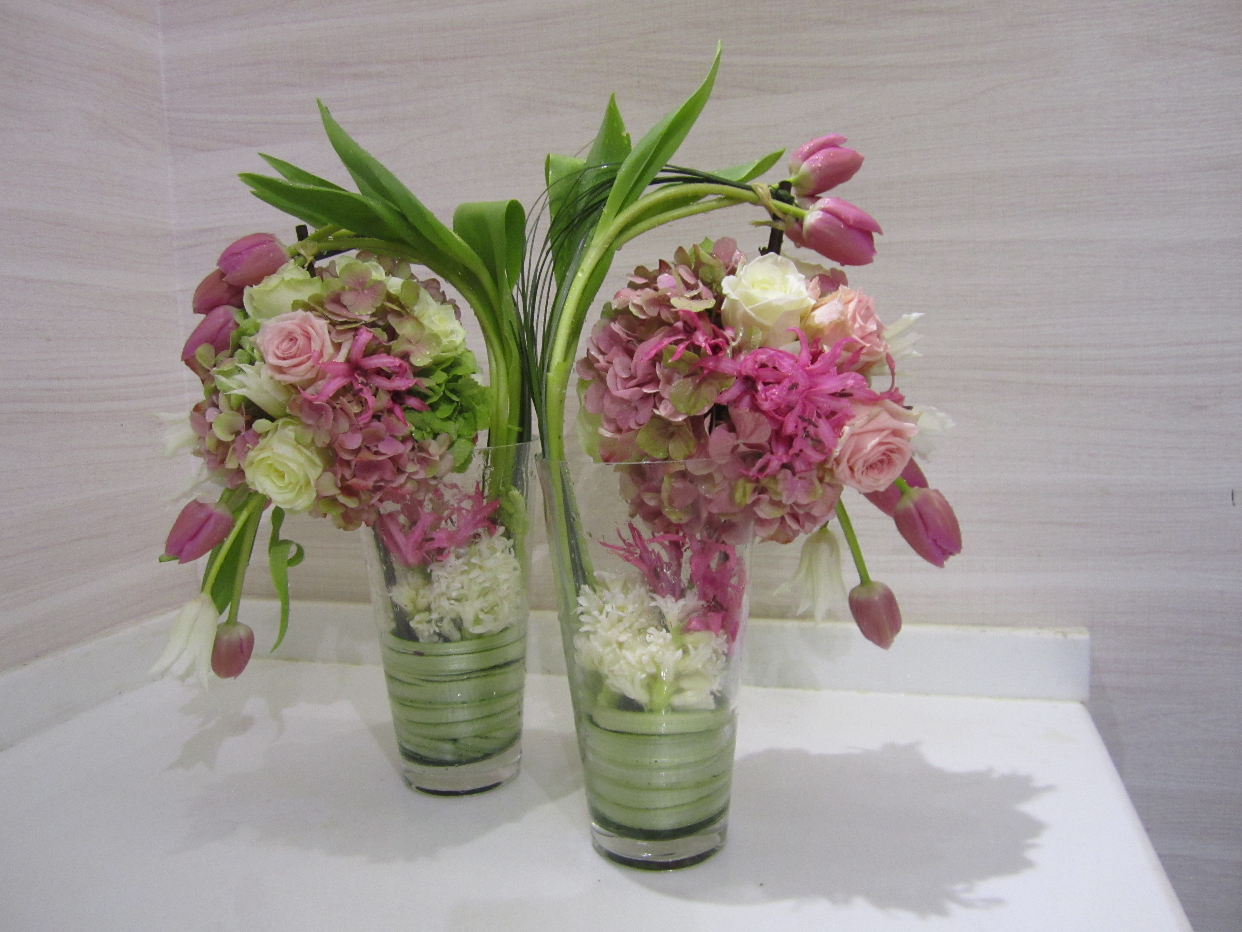 Hydrangea tulips mix floral vases